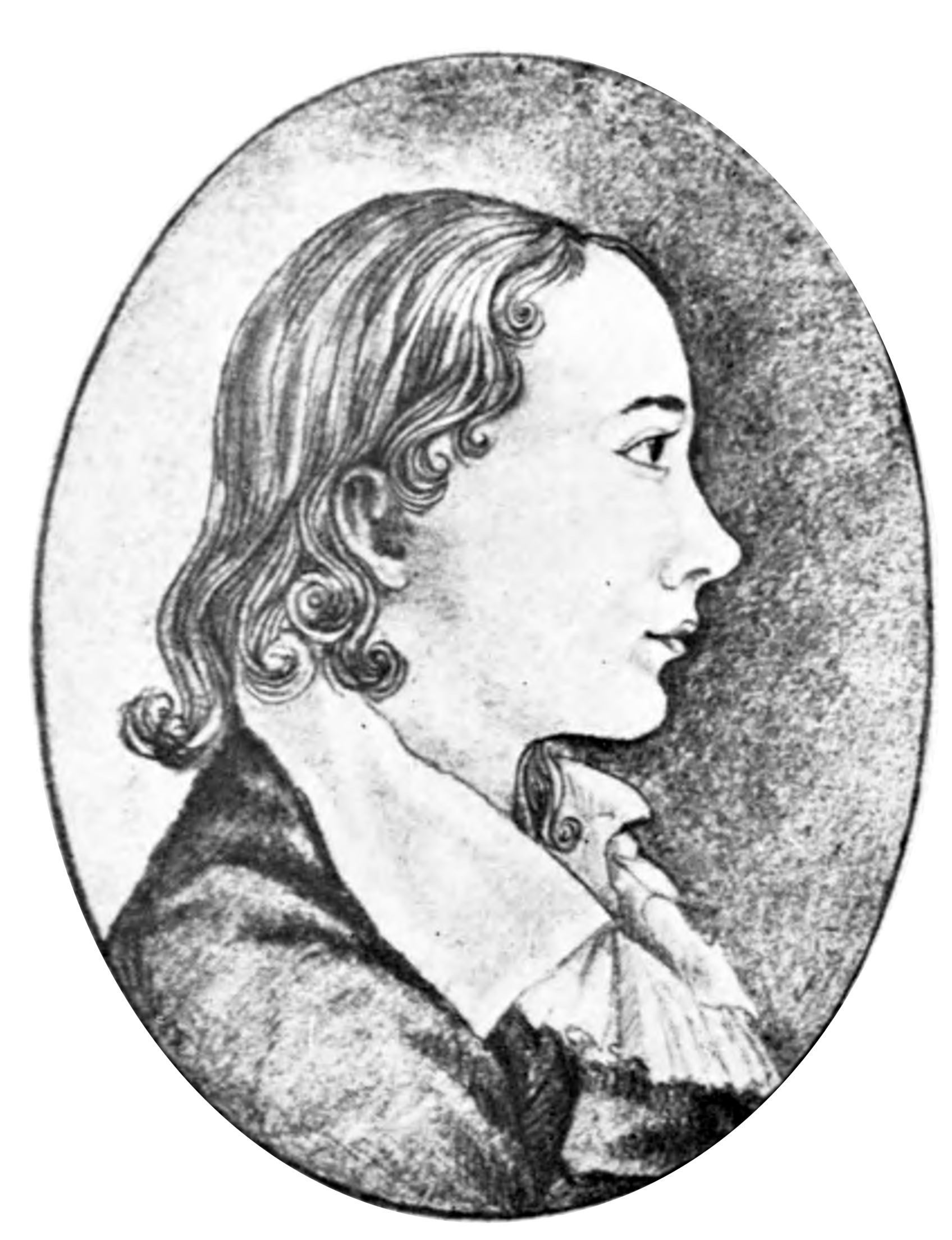 Johann Christian Friedrich Hölderlin. Pencil Portrait were drawn by I. G. Nast, 1788 year.